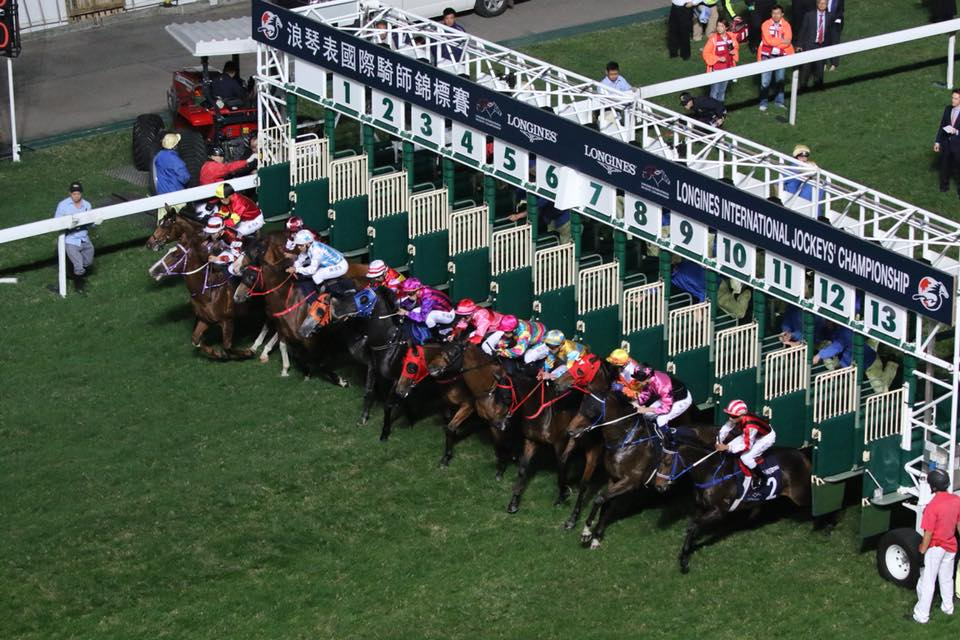 International Jockey Championship 2017